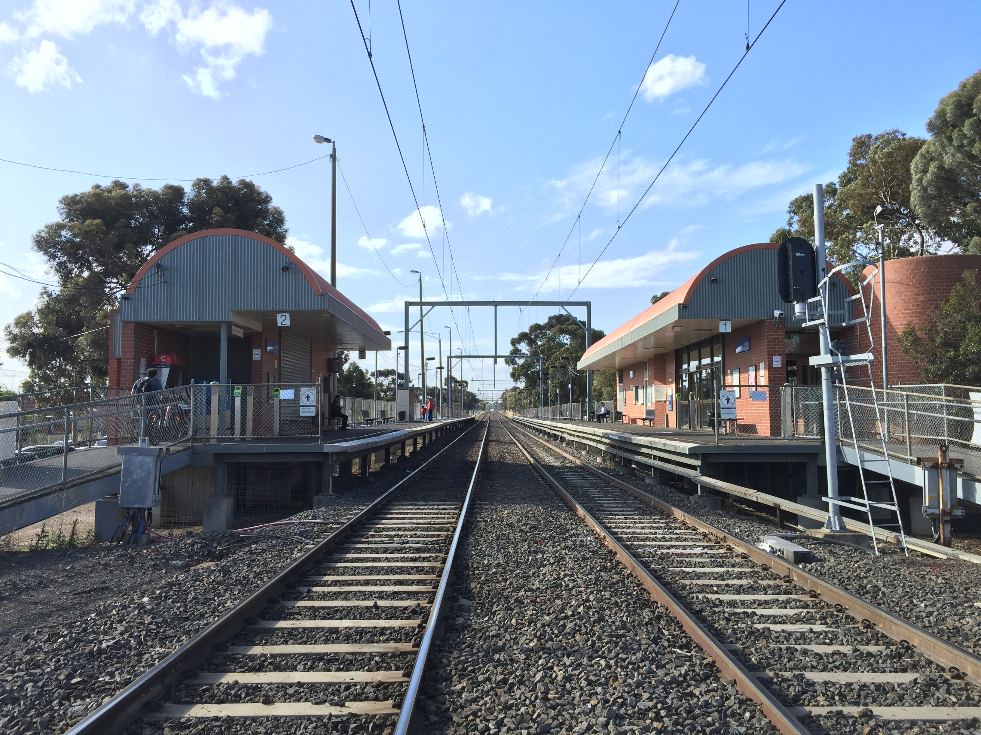 Ginifer railway station in Melbourne, Australia from the tracks looking north.